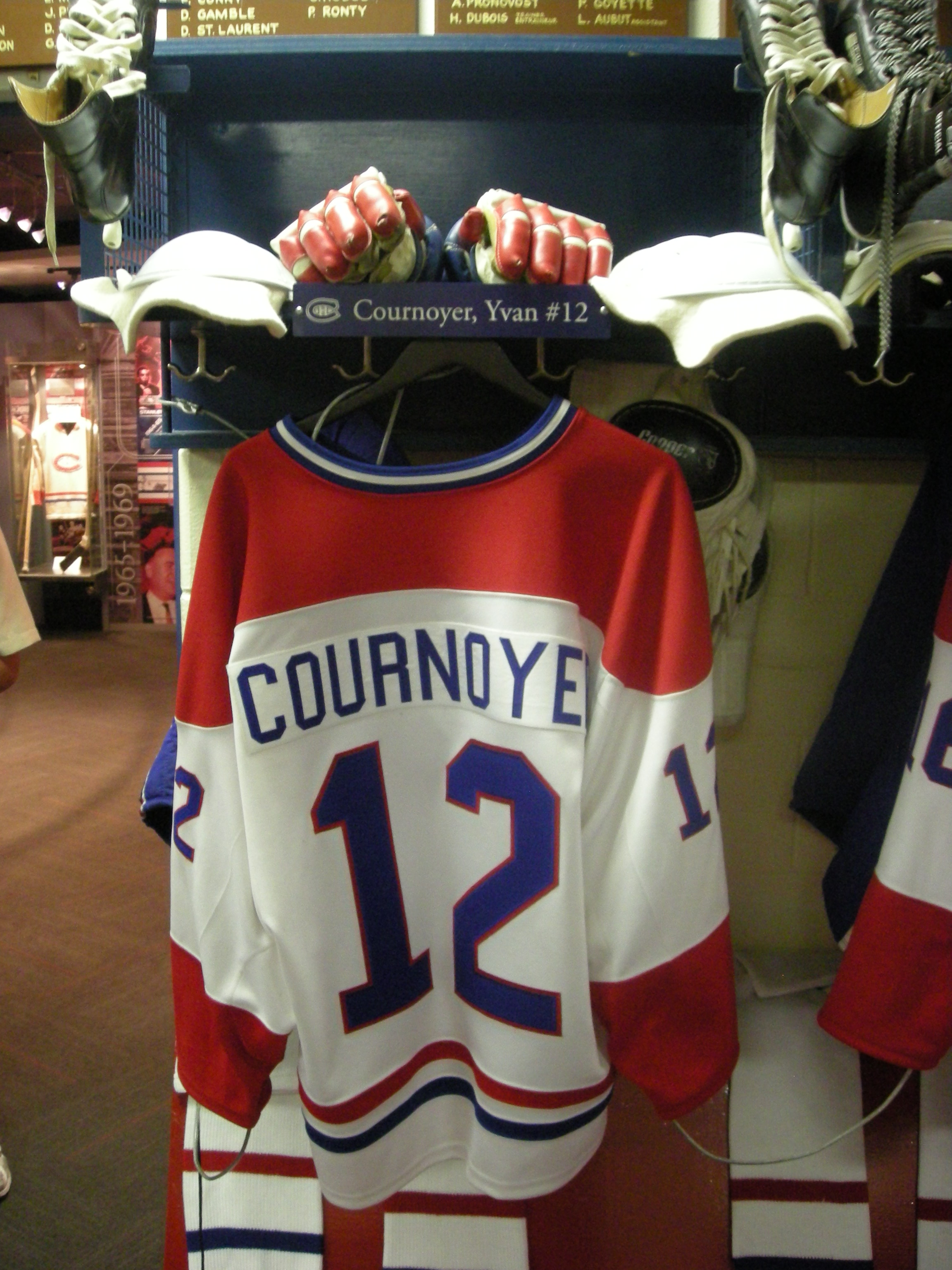 Yvan Cournoyer's jersey in the replica of the Montreal Canadiens dressing room at the Hockey Hall of Fame in Toronto, Ontario (Canada).